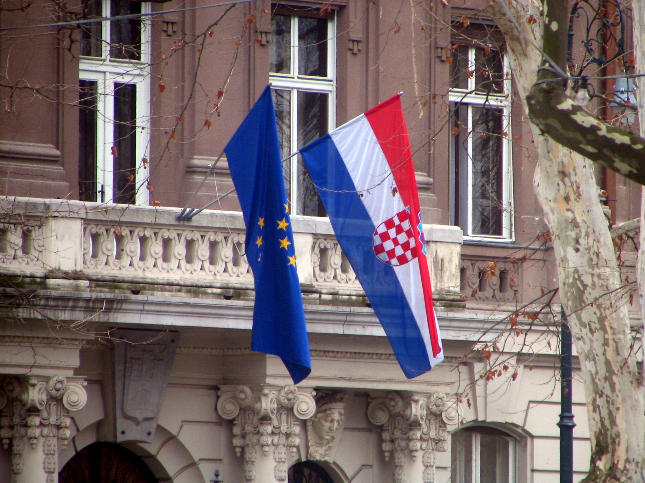 Flags of Croatia and the European Union on a public institution's building (Ministry of foreign affairs and european integration) in Zagreb.